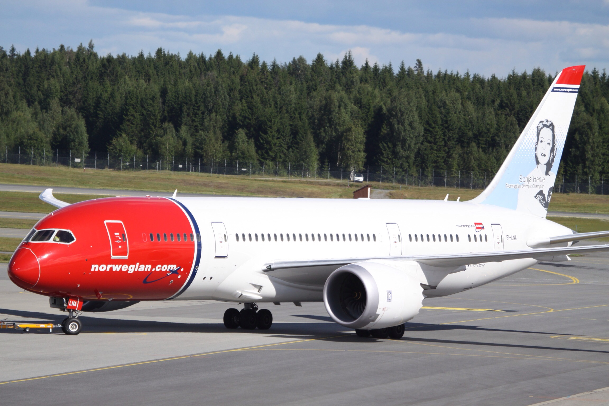 At Oslo Gardermoen